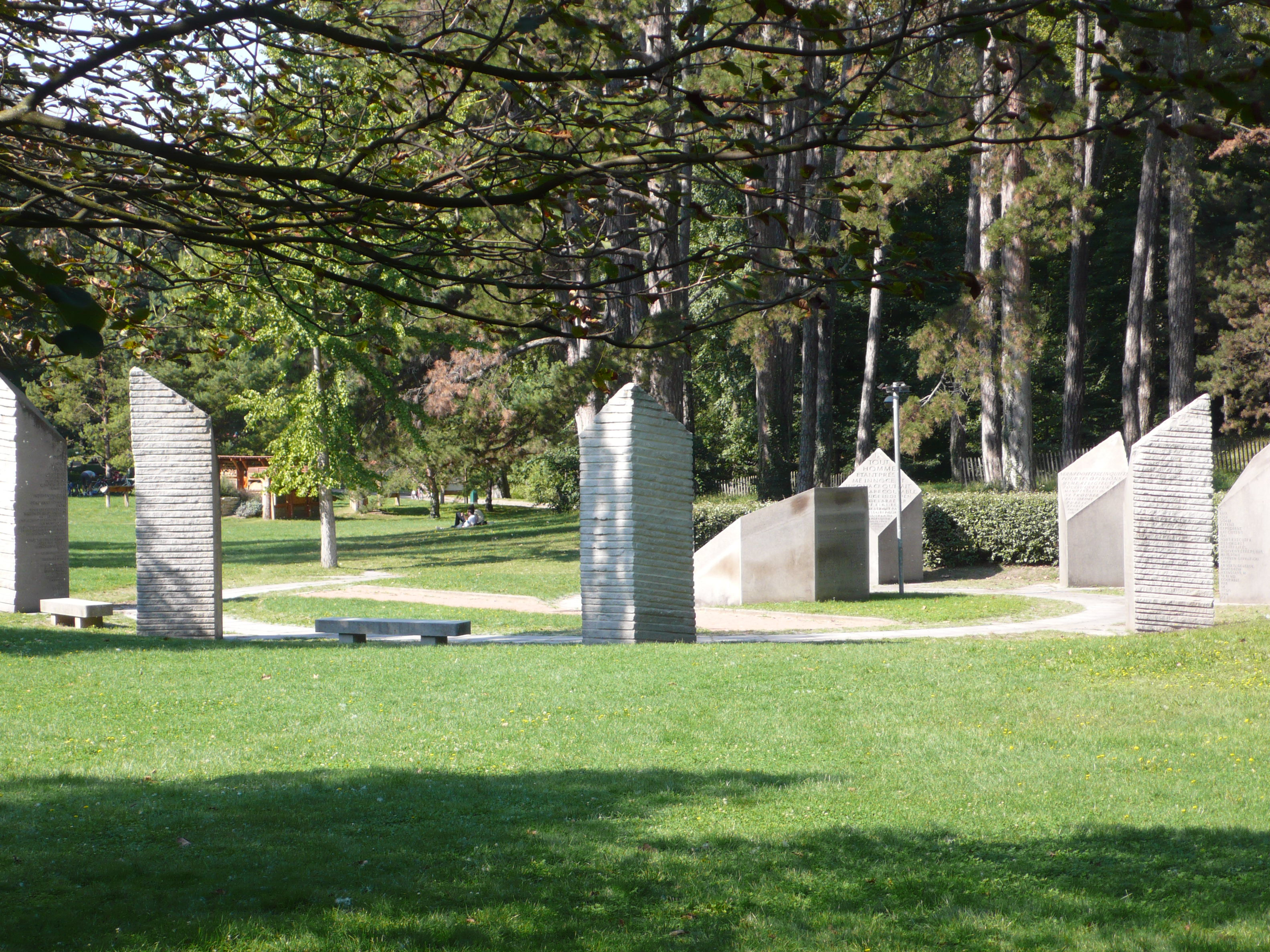 Parc de la Tête d'Or (F-69006, Lyon, France) - Espace droits de l'homme (human rights area) in the north side.